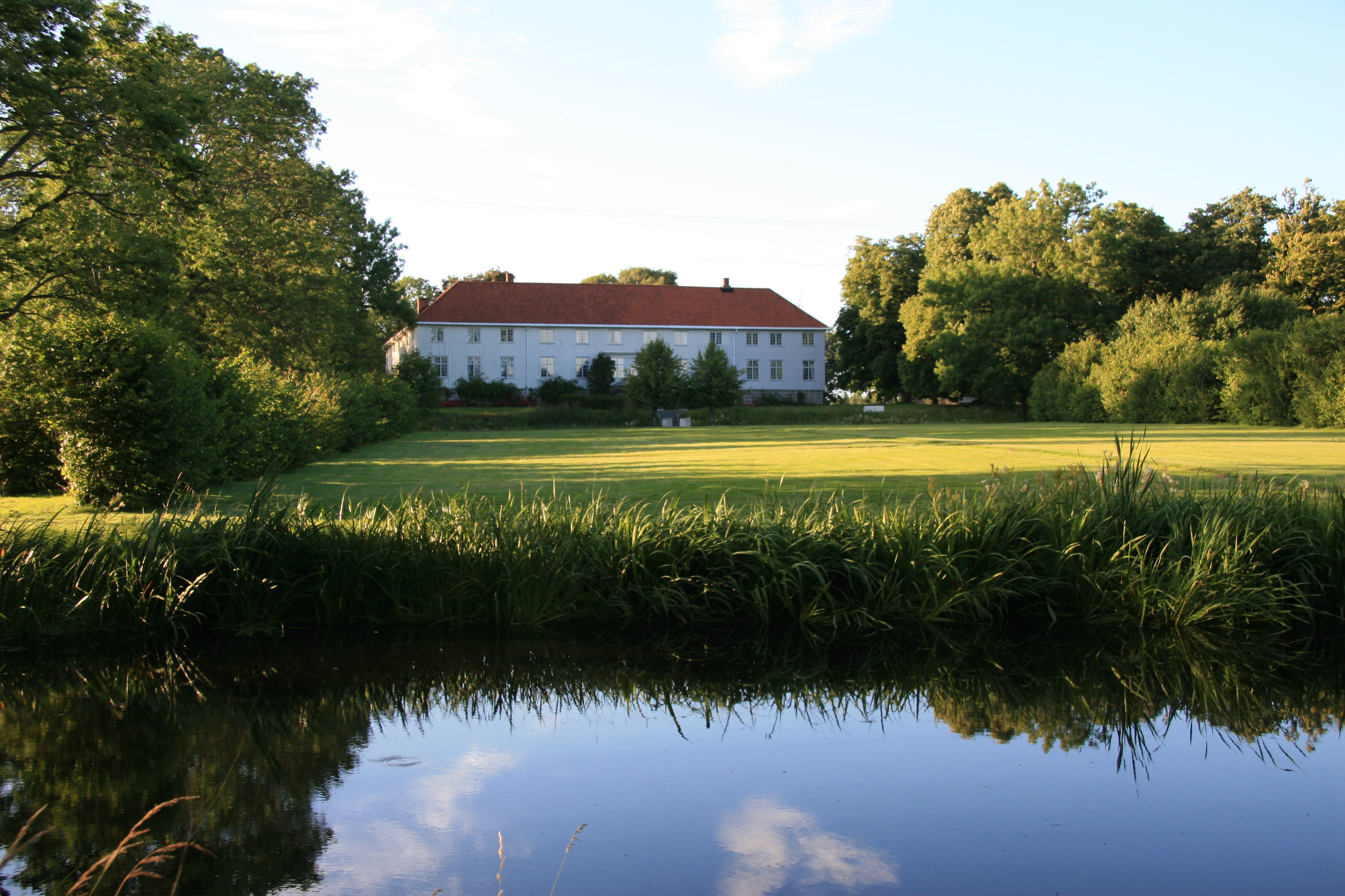 This image shows the Elingaard garden, main building and fishpond